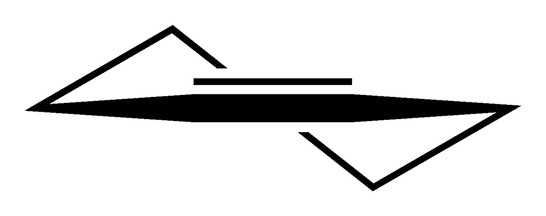 Skeletal formula of the cyclohexene molecule, showing its twisted conformation.